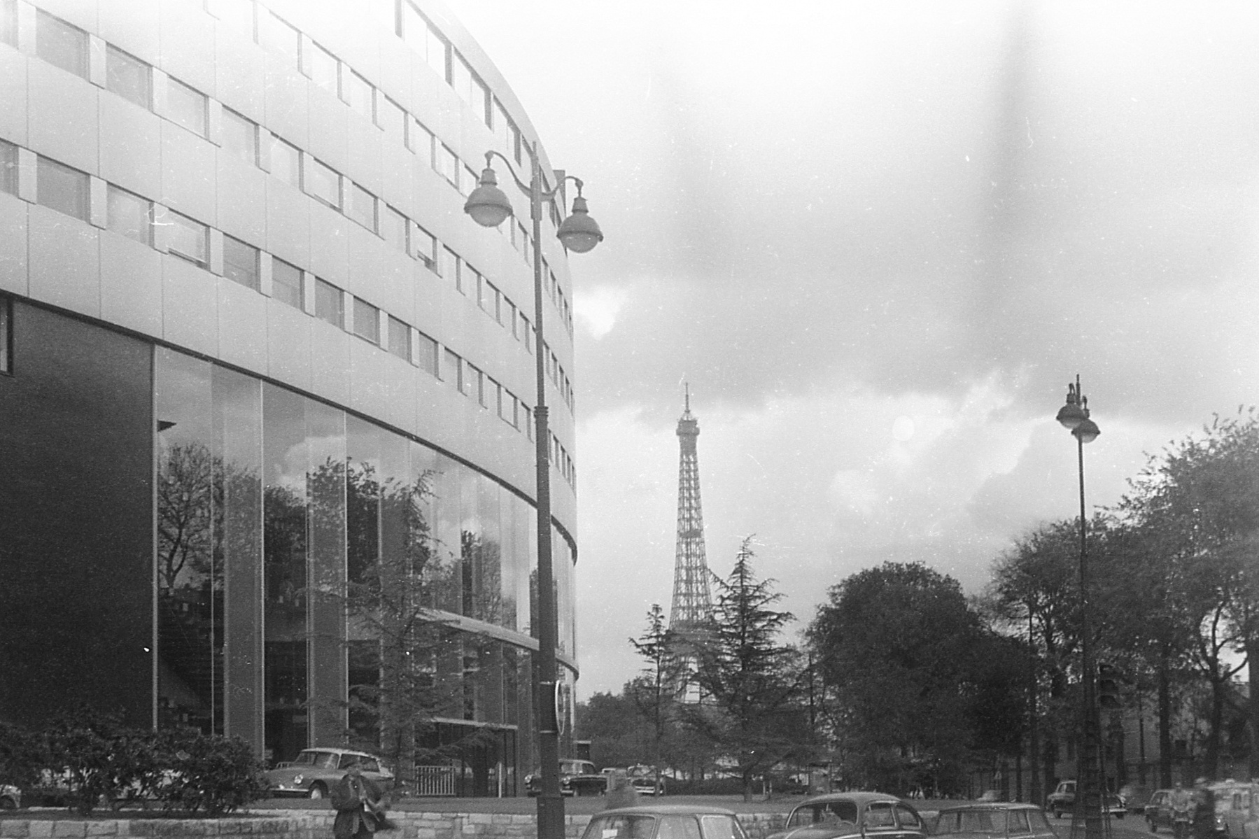 Henry Bernard (French, 1912-1994): Maison de Radio France, 1963, headquarters of the national radio broadcast company in Paris, with the Eiffel tower in the background.